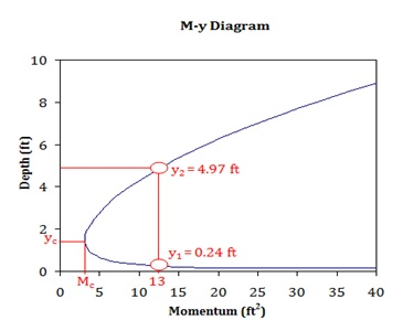 m-y diagram